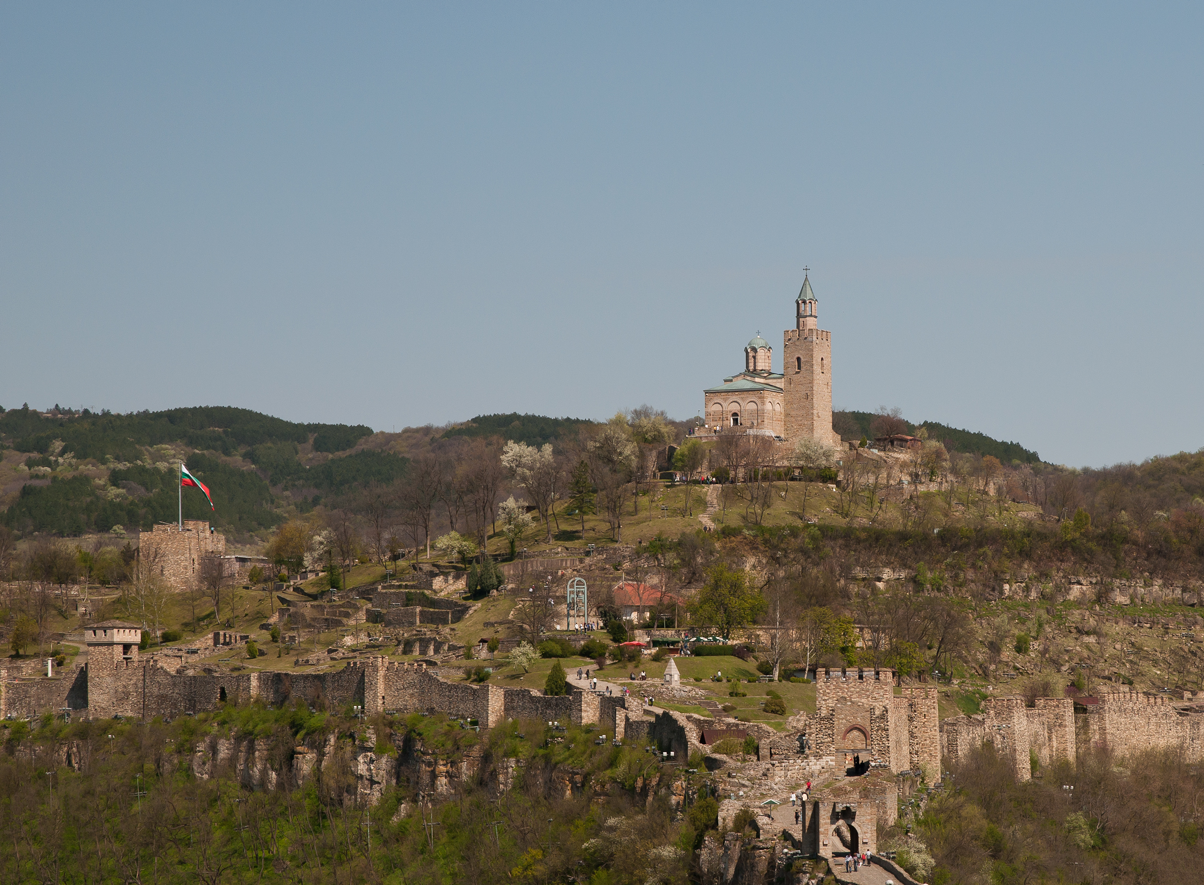 The medieval stronghold of Tsarevets, Veliko Tarnovo, Bulgaria. The Patriarchal Cathedral of the Holy Ascension of God can be seen on the top of the hill.